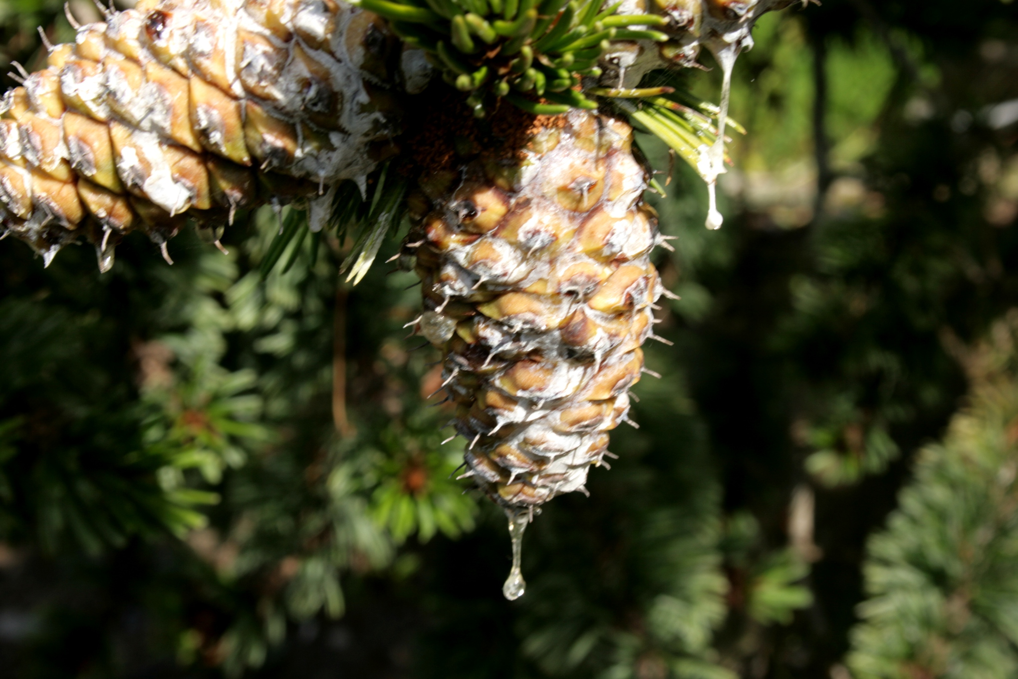 Pinus aristata: Cones